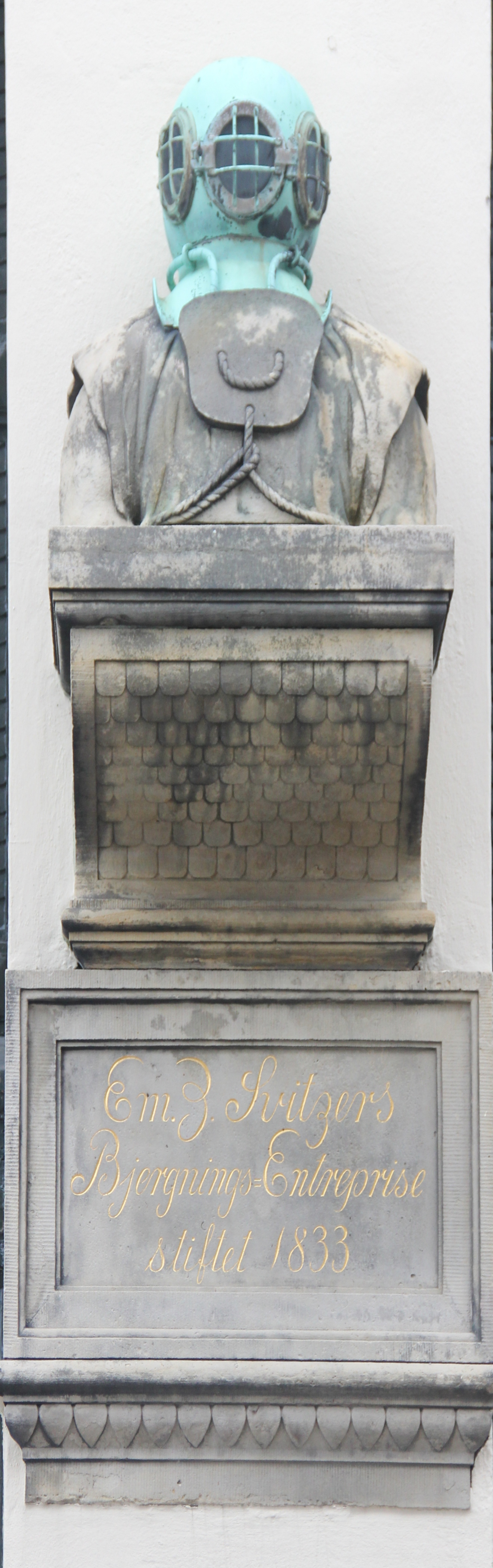 Bust of Svitzer diver in Copenhagen. With sign "Em. Z. Svitzer Bjergnings-Entreprise stiftet 1833"